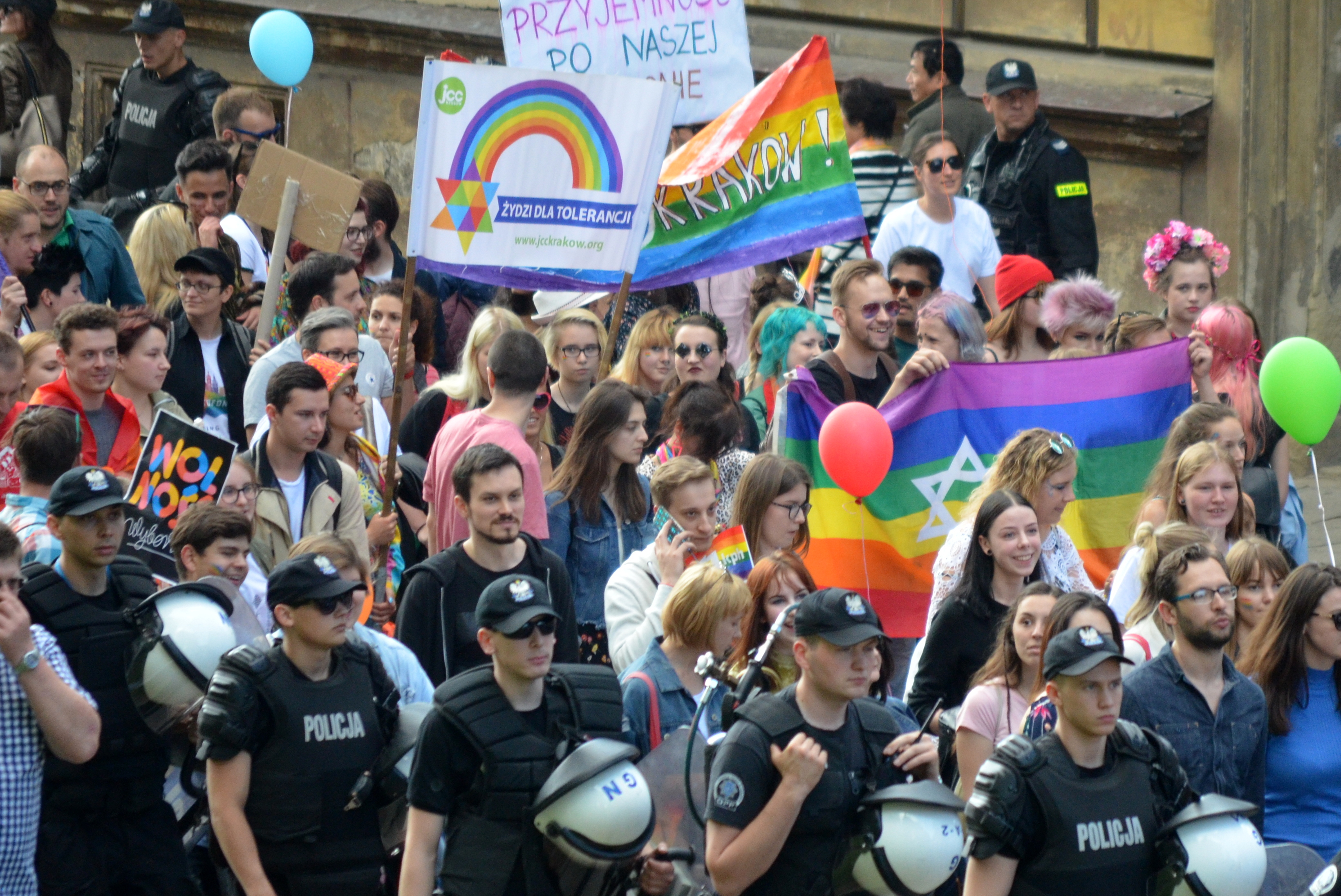 Polish police unists block a road to anti-gay protestors during the "Marsh Equality" in Kraków